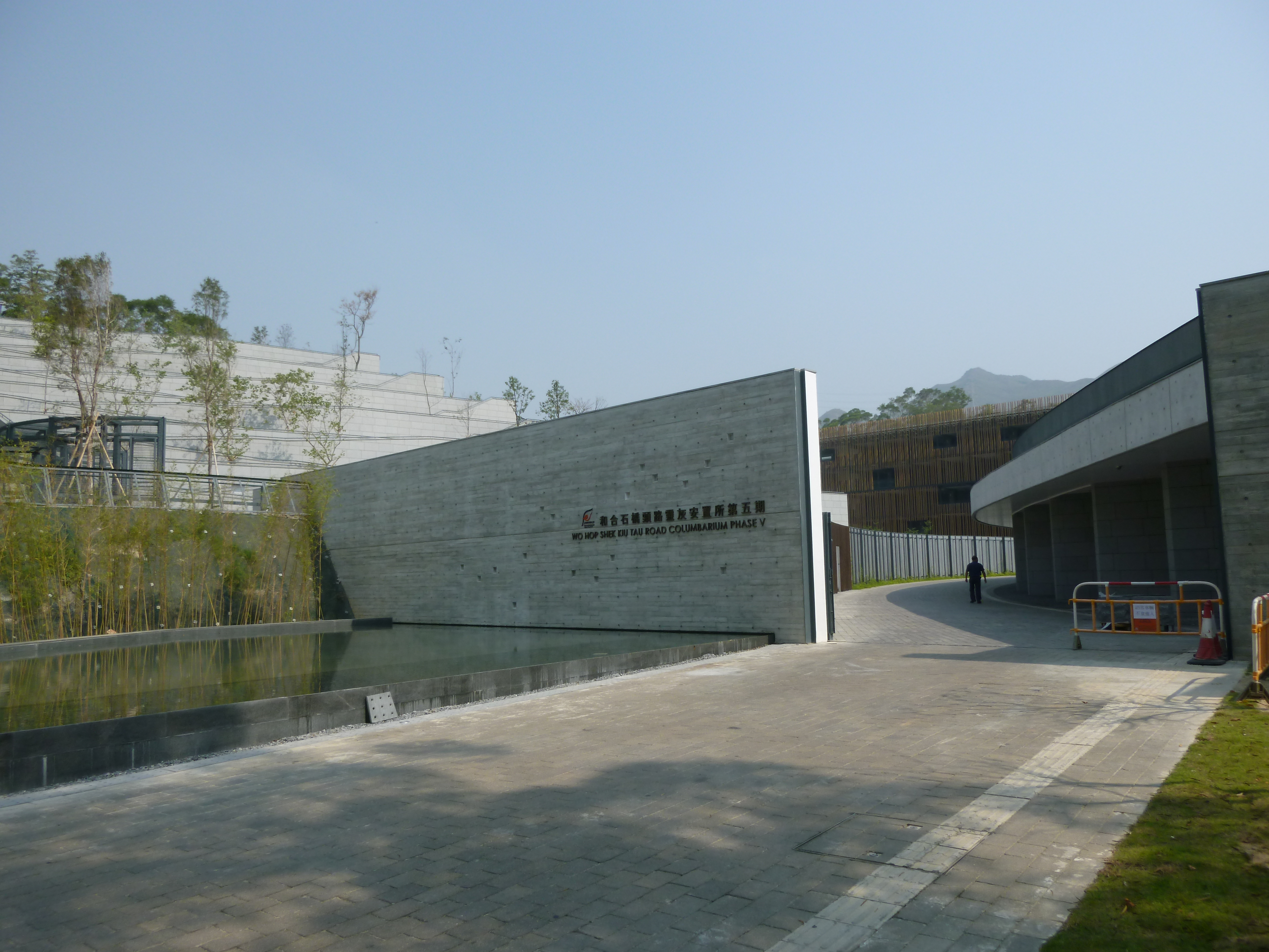 Wo Hop Shek Kiu Tau Road Columbarium Phase V - entrance